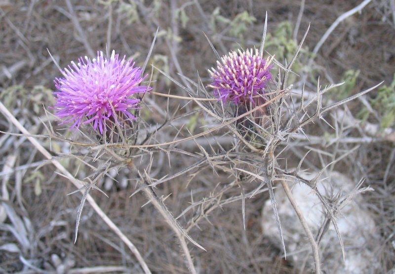 Carlina comosa (Spreng.) Greuter (חורשף מצויץ) - image taken on 15 October 2004, on the slopes of Mount Carmel, Israel.